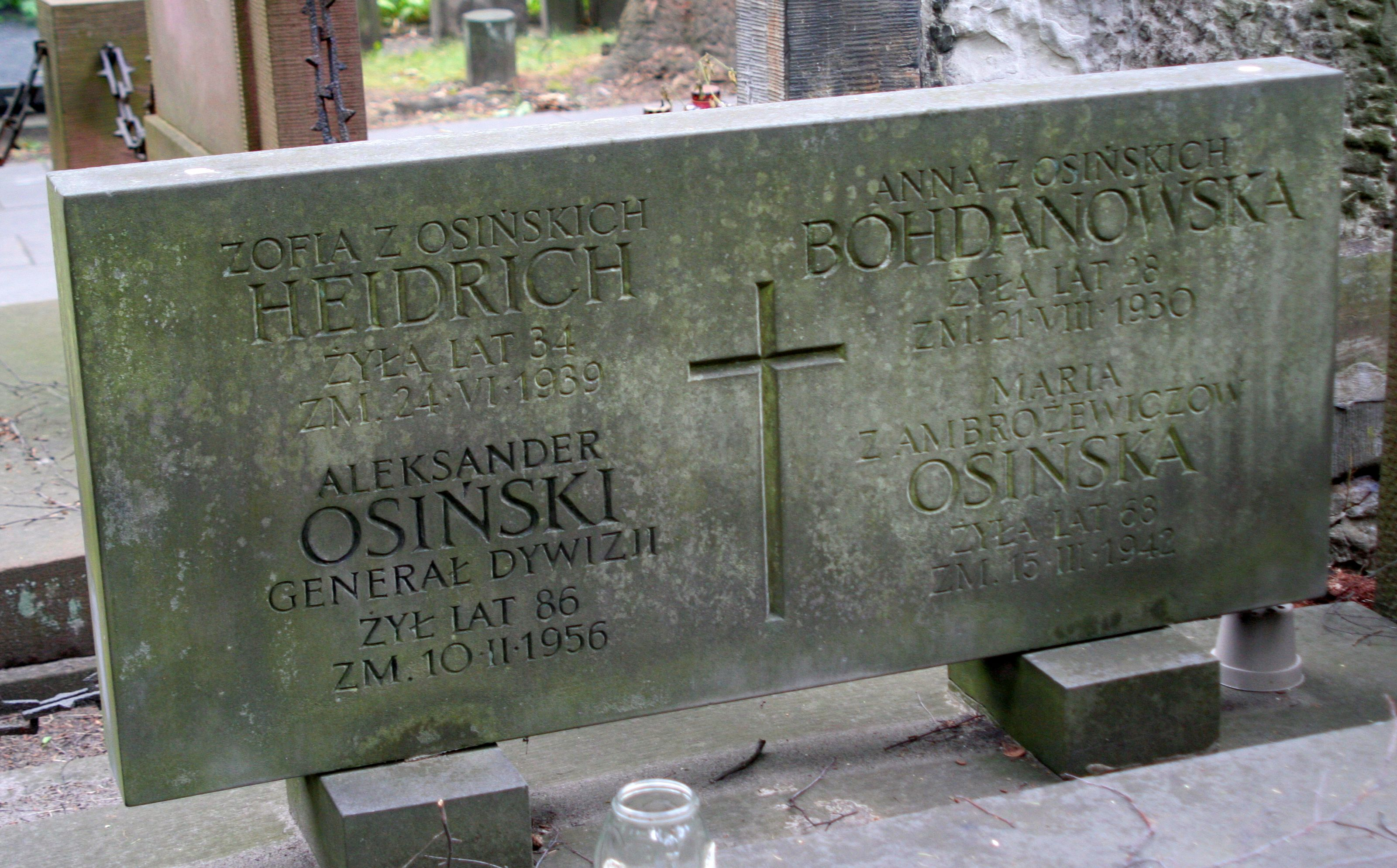 General Aleksander Osiński's grave at Warsaw Military Cemetery.